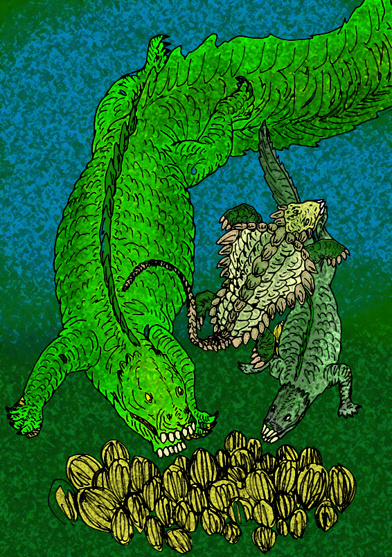 Reconstructions of the placodonts Placodus, Paraplacodus, and Cyamodus, of Triassic Europe.